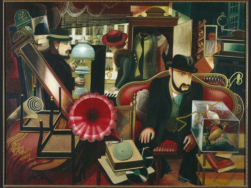 Troedelladen